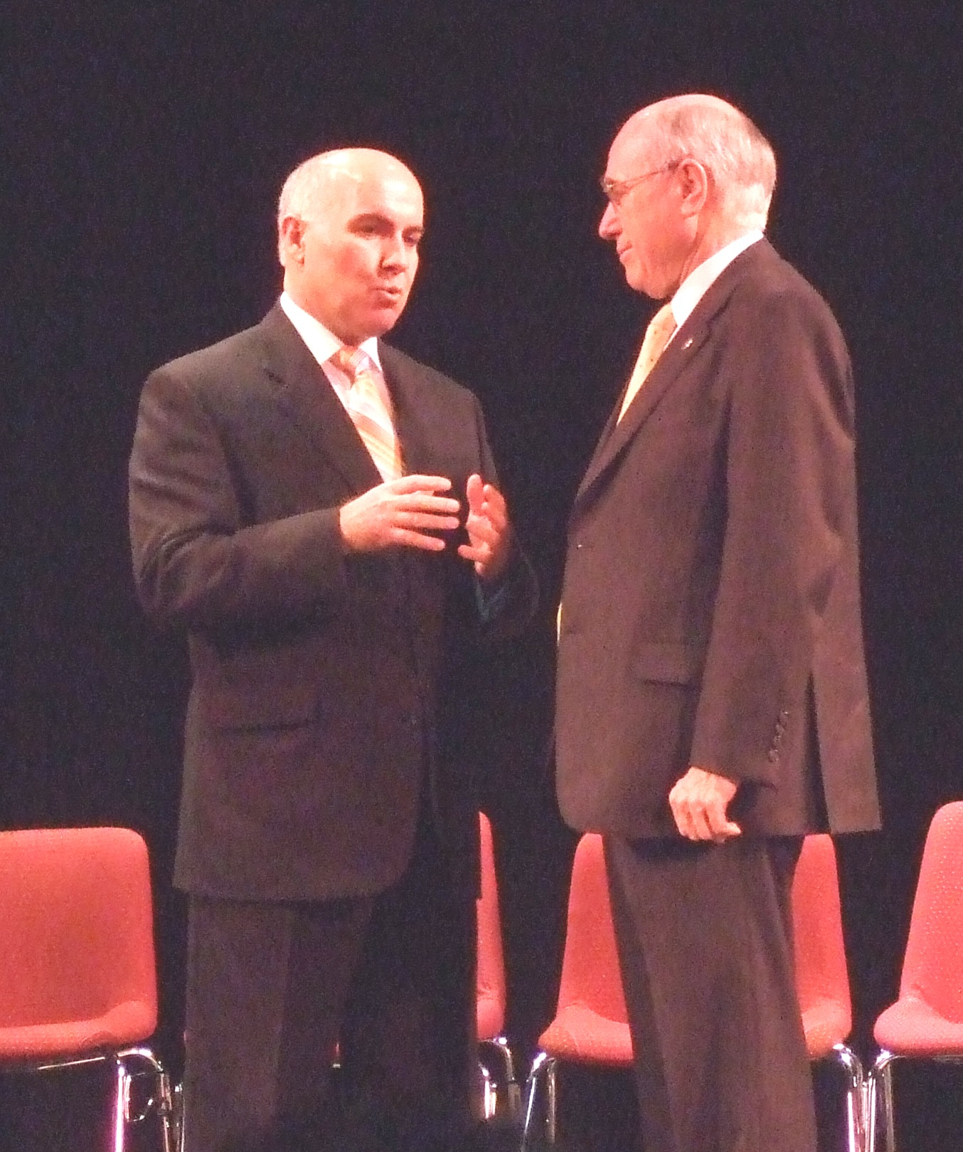 John Howard and Philip Barresi